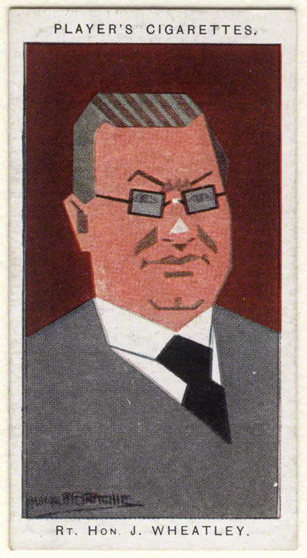 Cigarette card depicting John Wheatley, statesman